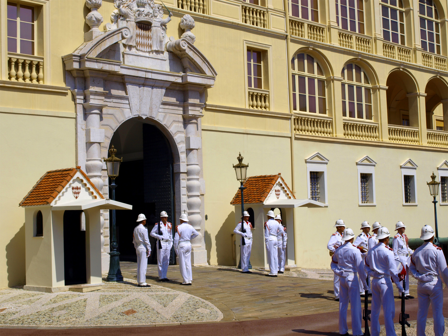 The Changing of the Guard. Prince's Palace of Monaco